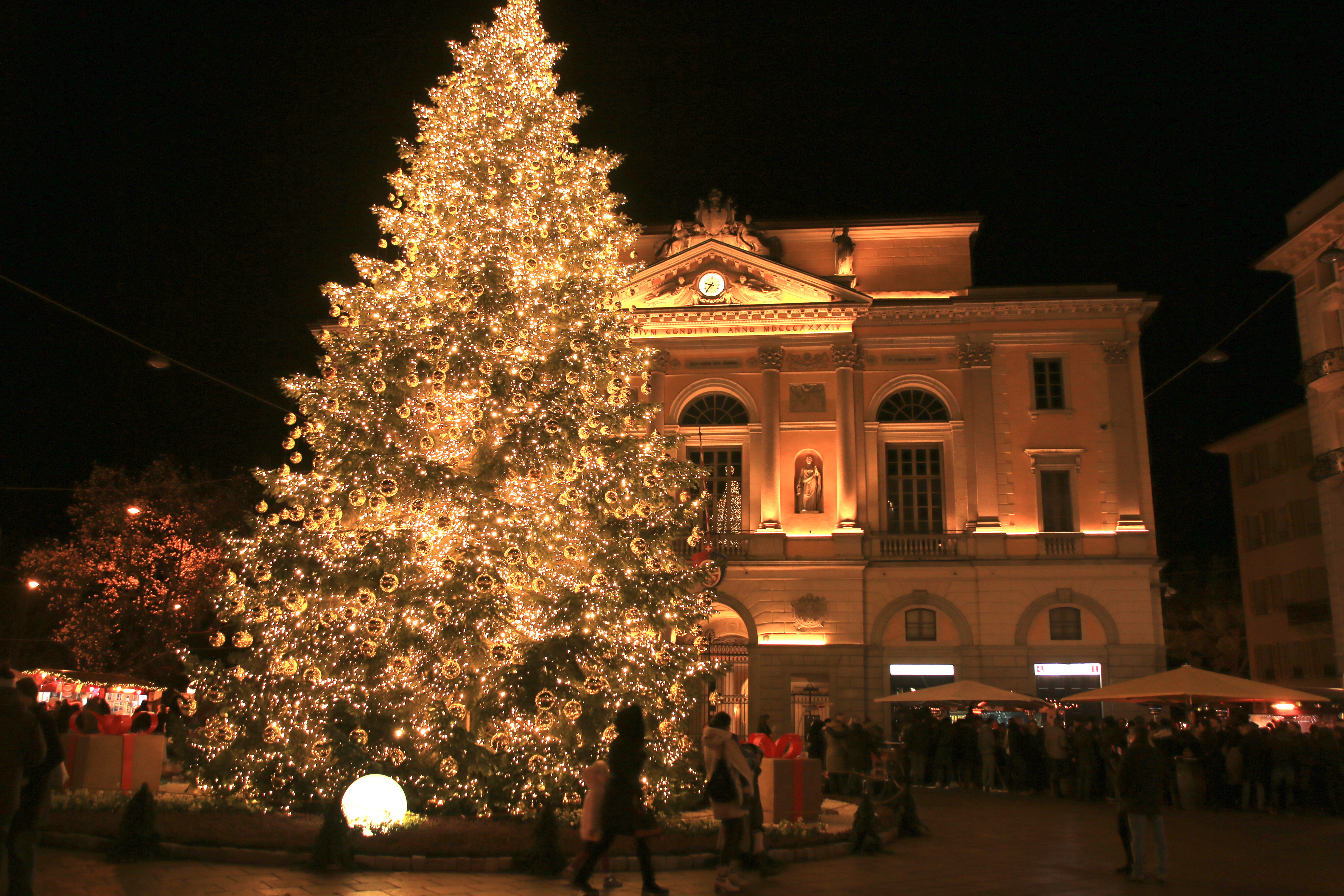 Christmas tree in Lugano (2018).jpg